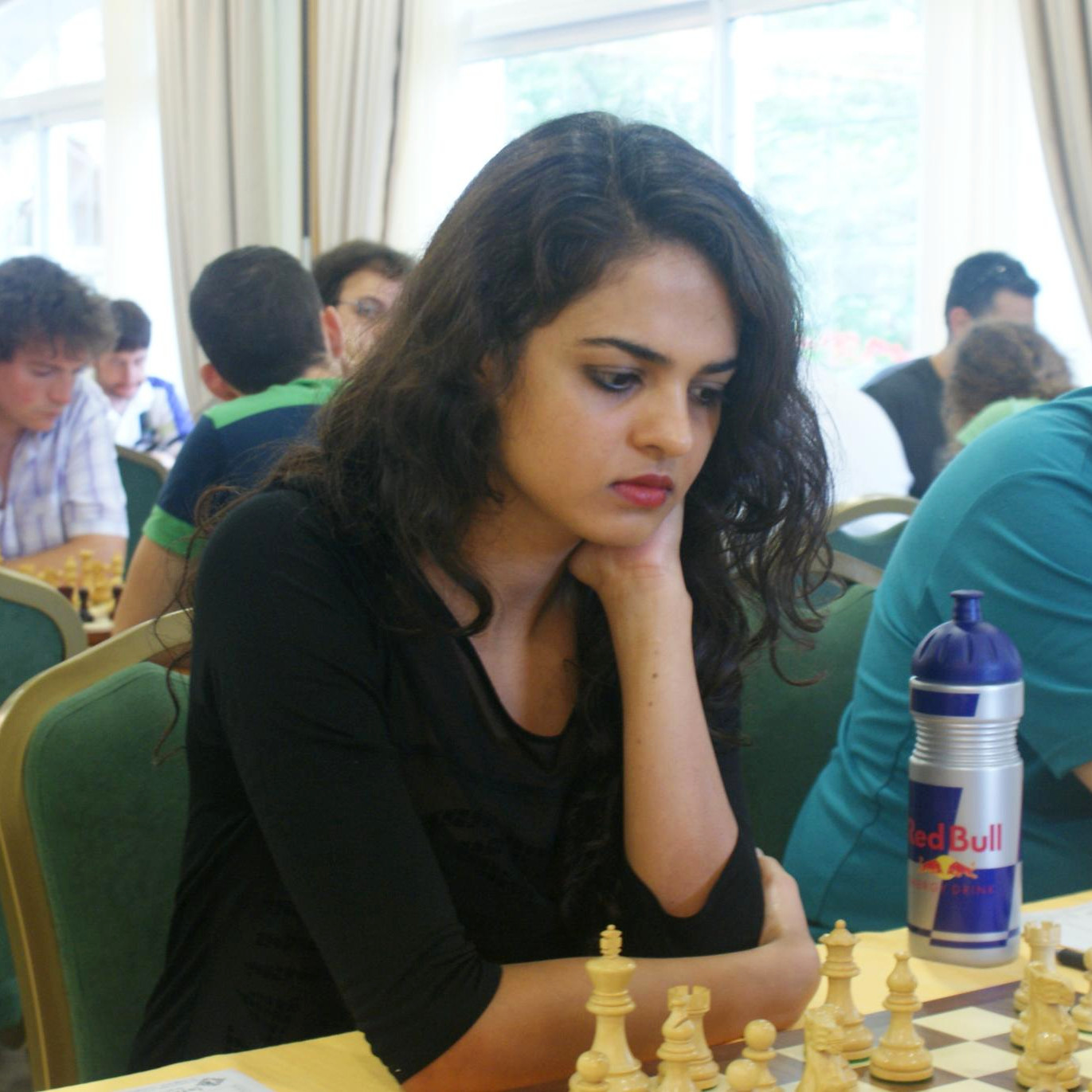 WGM Tania Sachdev, 31è Open Internacional d'Andorra, Hotel Sant Gothard, Ronda 5 - 24/07/2013